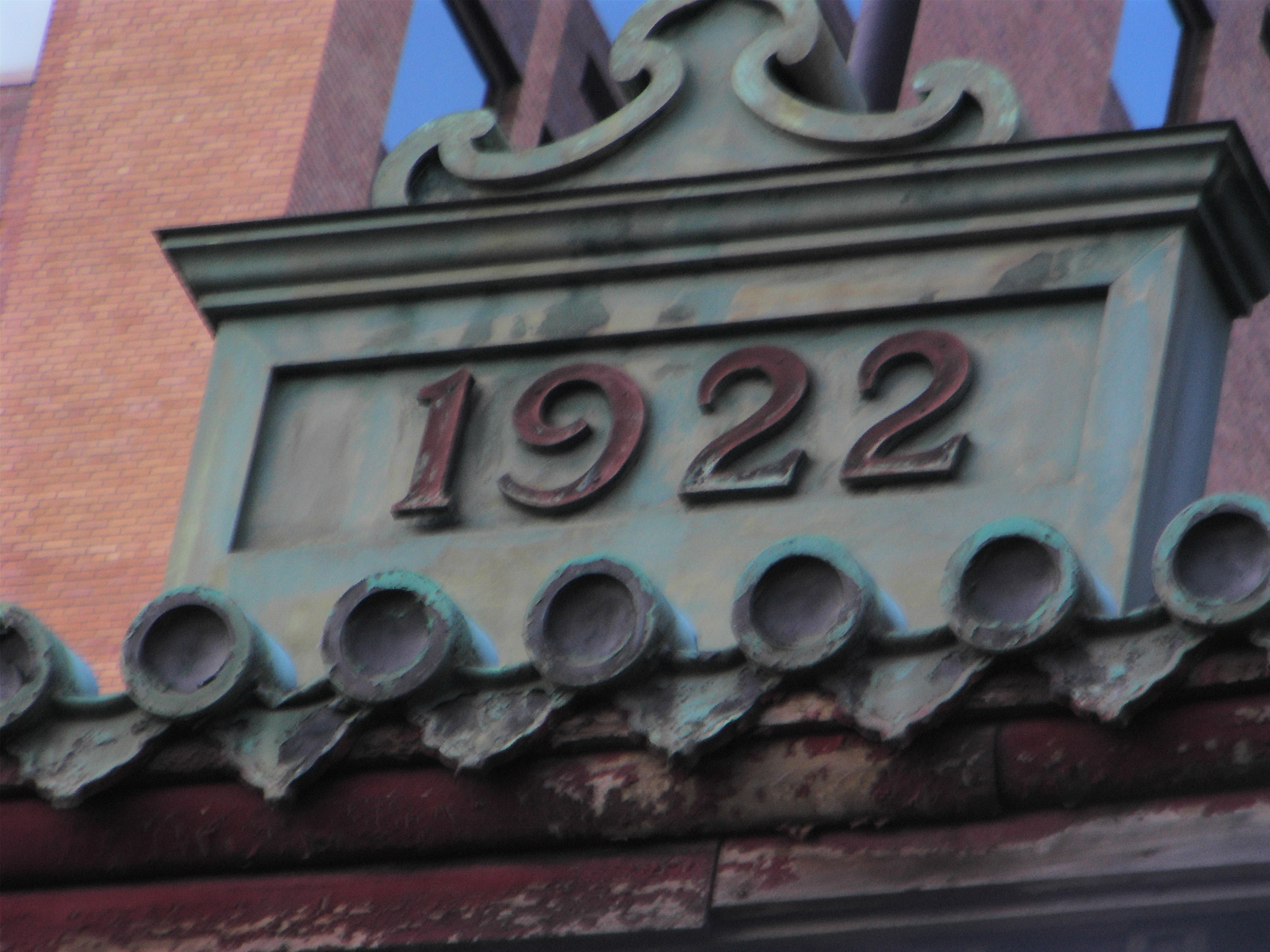 HeyYallYo This is old "Chinatown" in Pittsburgh, Pa.